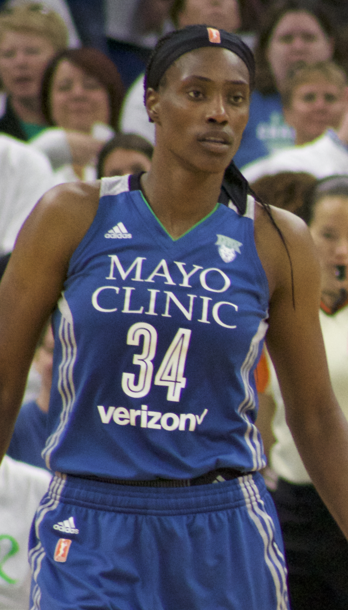 Sylvia Fowles of the Minnesota Lynx